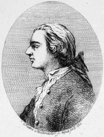 Italian violinist and composer Gaetano Pugnani (1731-1798). Etching by Frédéric-Désiré Hillemacher (1811-1896).